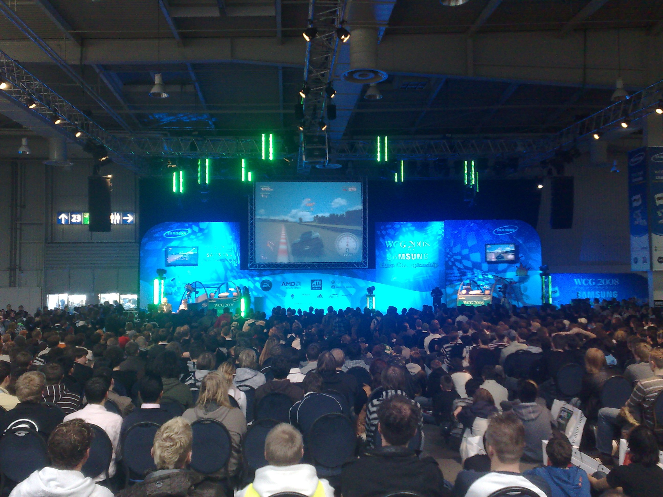 The Samsung Euro Championship of the WCG 2008